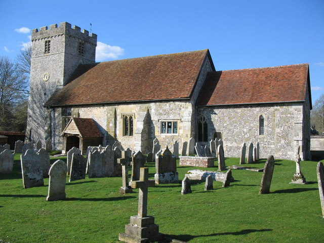 St. Andrews church, Great Durnford. A view looking north across the graveyard at St. Andrews church.